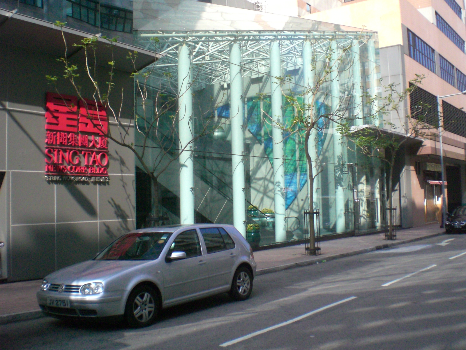 阿公岩村道